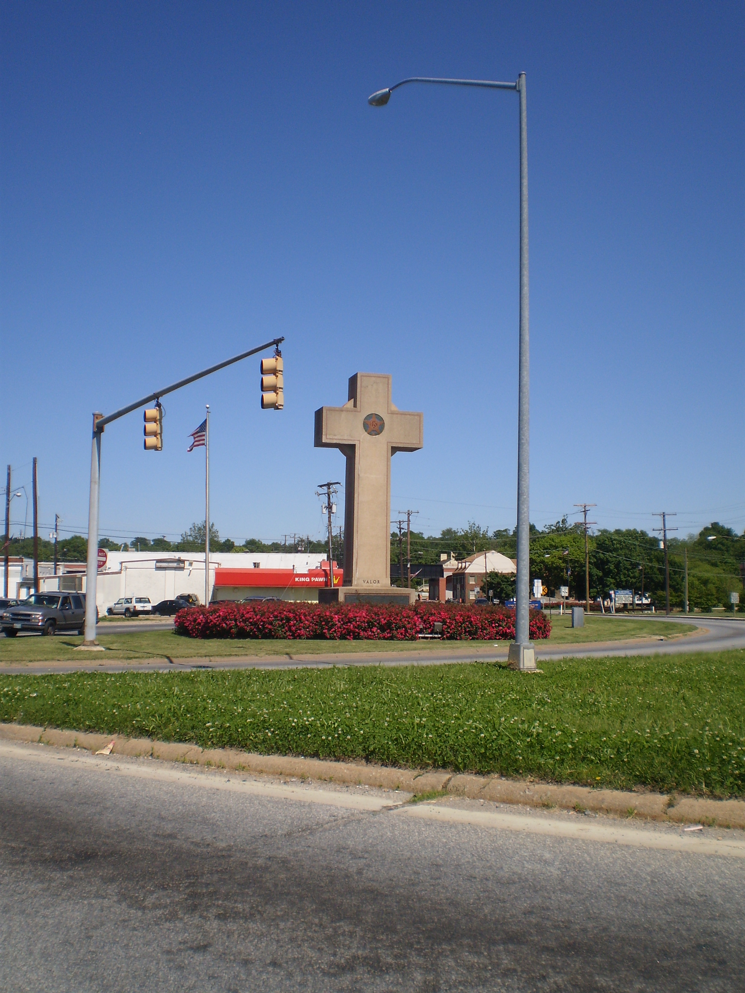 A World War I memorial located in the center of some streets in Bladensburg, Maryland.